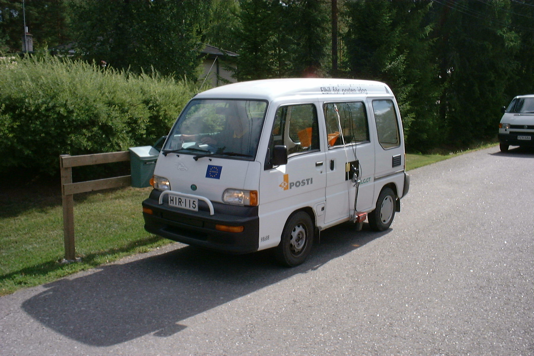 An Elcat electric van used by Finnish Post Office in Turku.